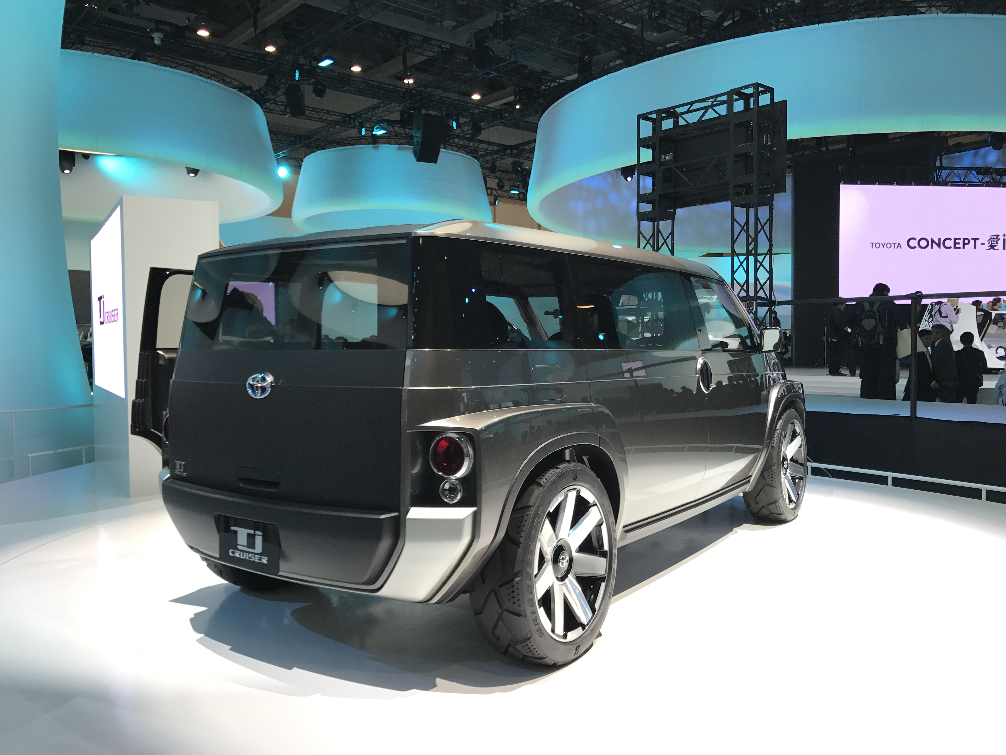 Back of Toyota TJ Cruiser concept at the 2017 Tokyo Motor Show